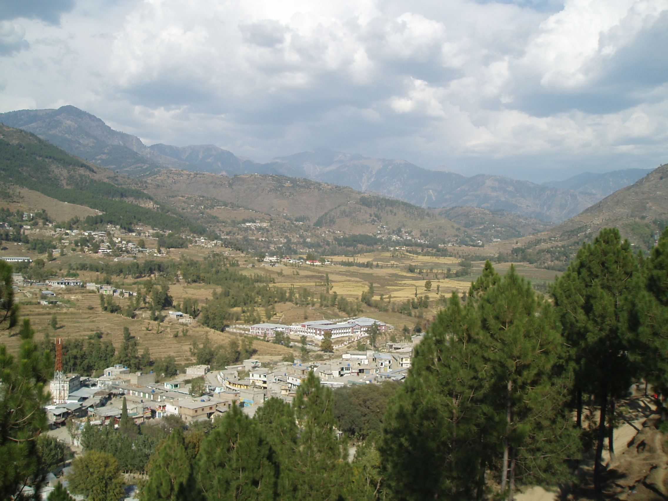 Battagram's Photo